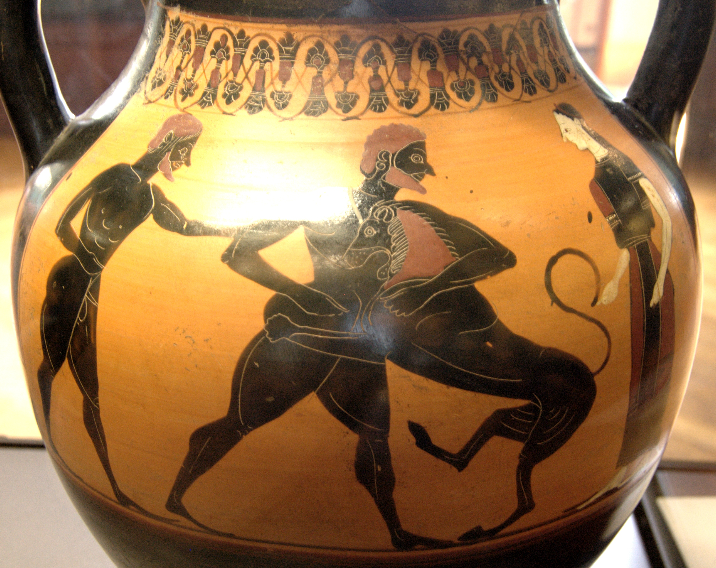 Heracles and the Nemean Lion. Side B from an black-figure Attic amphora, ca. 540 BC.